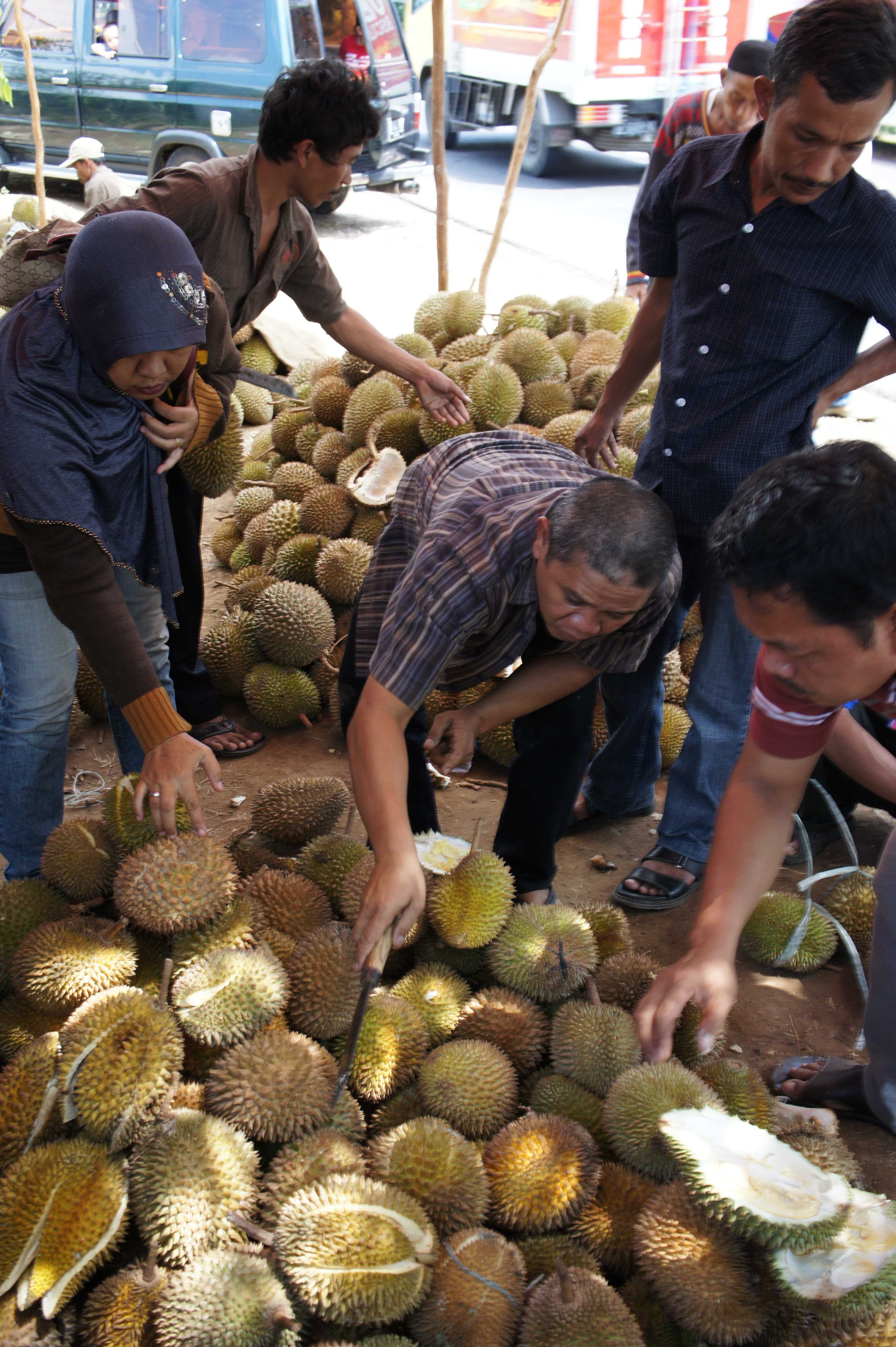 Probing durian fruits from seedling trees for eating quality, near Cirebon, Java, Indonesia.